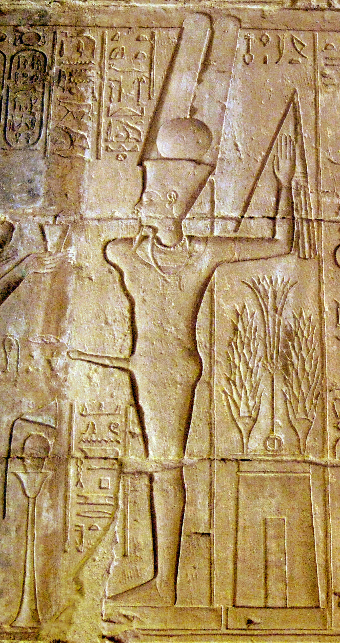 Amun-Ra kamutef. Deir el Medina (The Place of Truth)